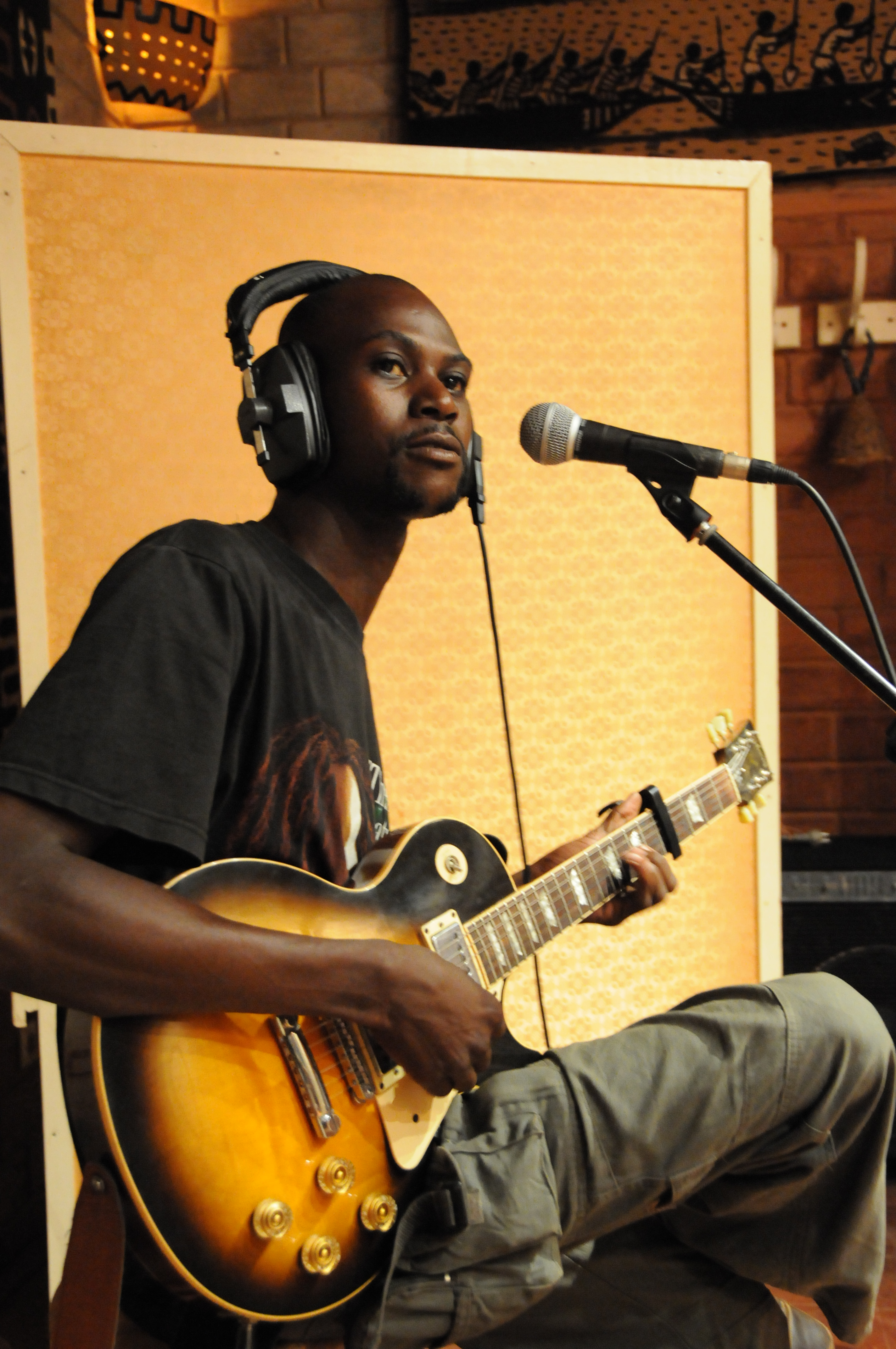 Ben Zabo